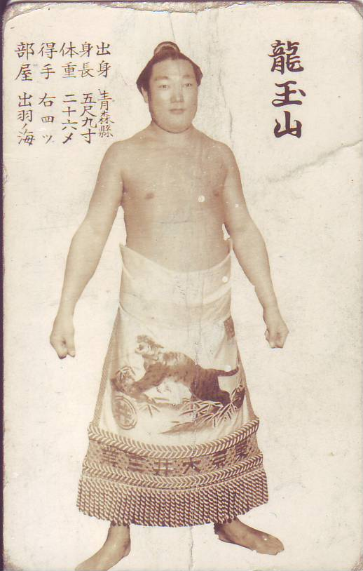 Bromide from Ryuozan Hikaru (Sumo wrestler).